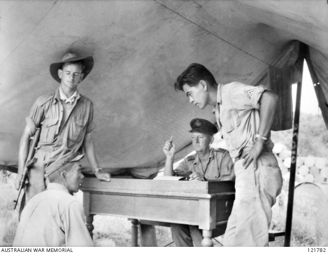 Sergeant Hosotani Naoji (left, seated) of the Kenpeitai (Japanese secret police) at Sandakan is interrogated by Squadron Leader F. G. Birchall (second right) of the Missing Servicemen Section and U. S. Army Sergeant Mamo (right) of the Allied Translator and Interpreter Service on October 26, 1945. Naoji confessed to shooting two Australian POWs and five Chinese civilians. He was subsequently charged with perpetrating War Crimes, tried in a military court, convicted of murder and sentenced to death. Naoji was executed by firing squad on 6th March 1946. (Photographer: Frank Burke)